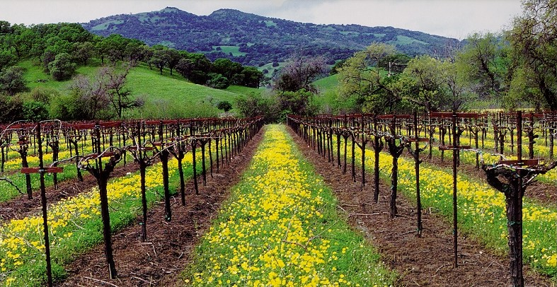 A Suisun Valley vineyard with a view of Twin Sisters peak in the background